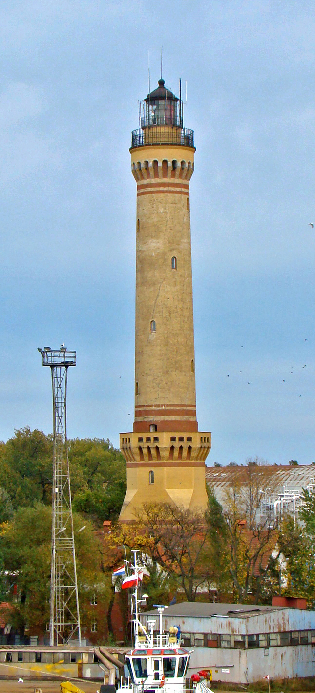 Swinoujscie Lighthouse, Poland